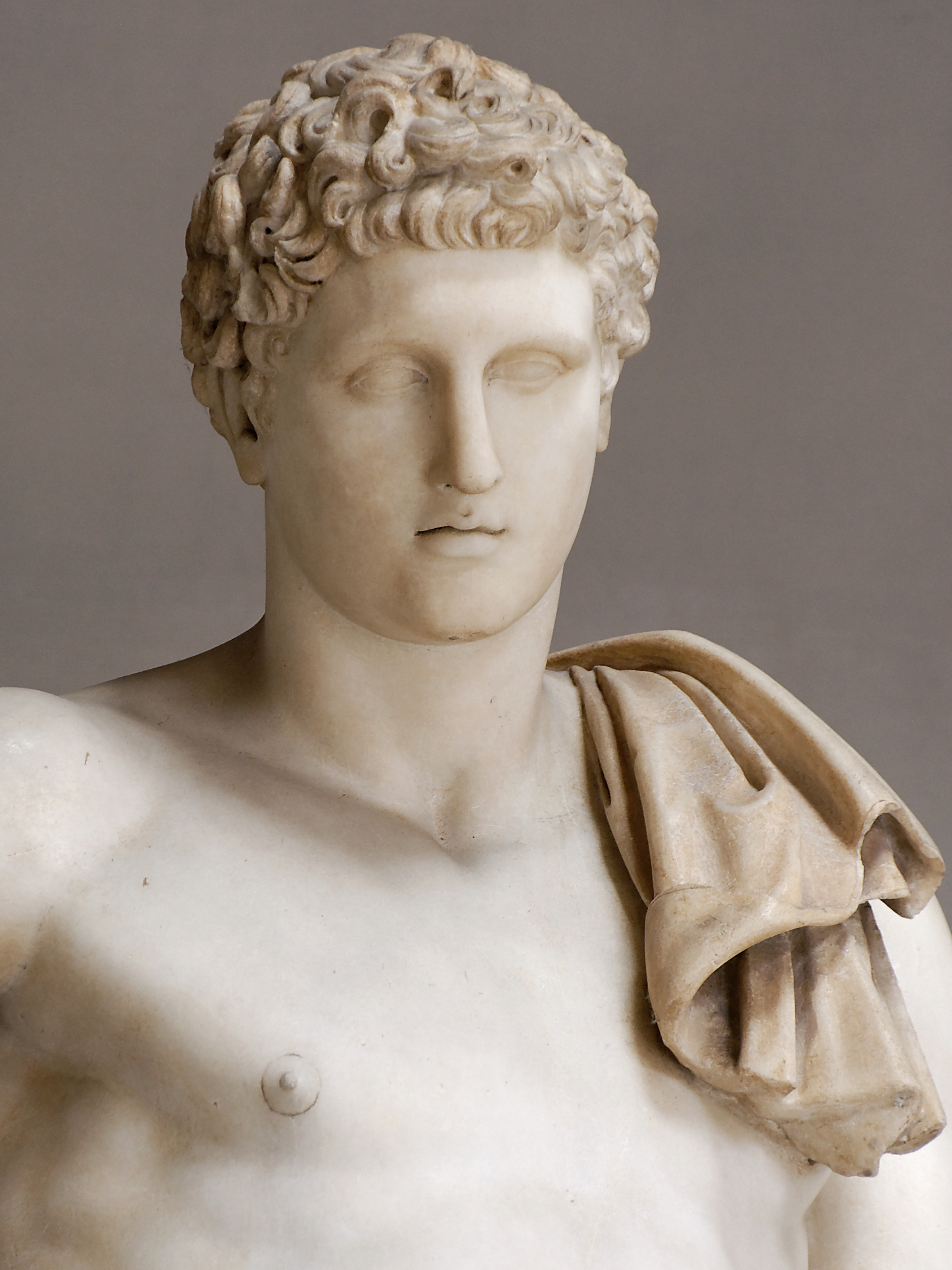 So-called “Belvedere Antinous”, actually a statue of Hermes of the Andros-Farnese type. Marble, Roman artwork, Hadrian's era, copy or a Greek bronze original of the 4th century BC. Found near the castle Sant'Angelo.